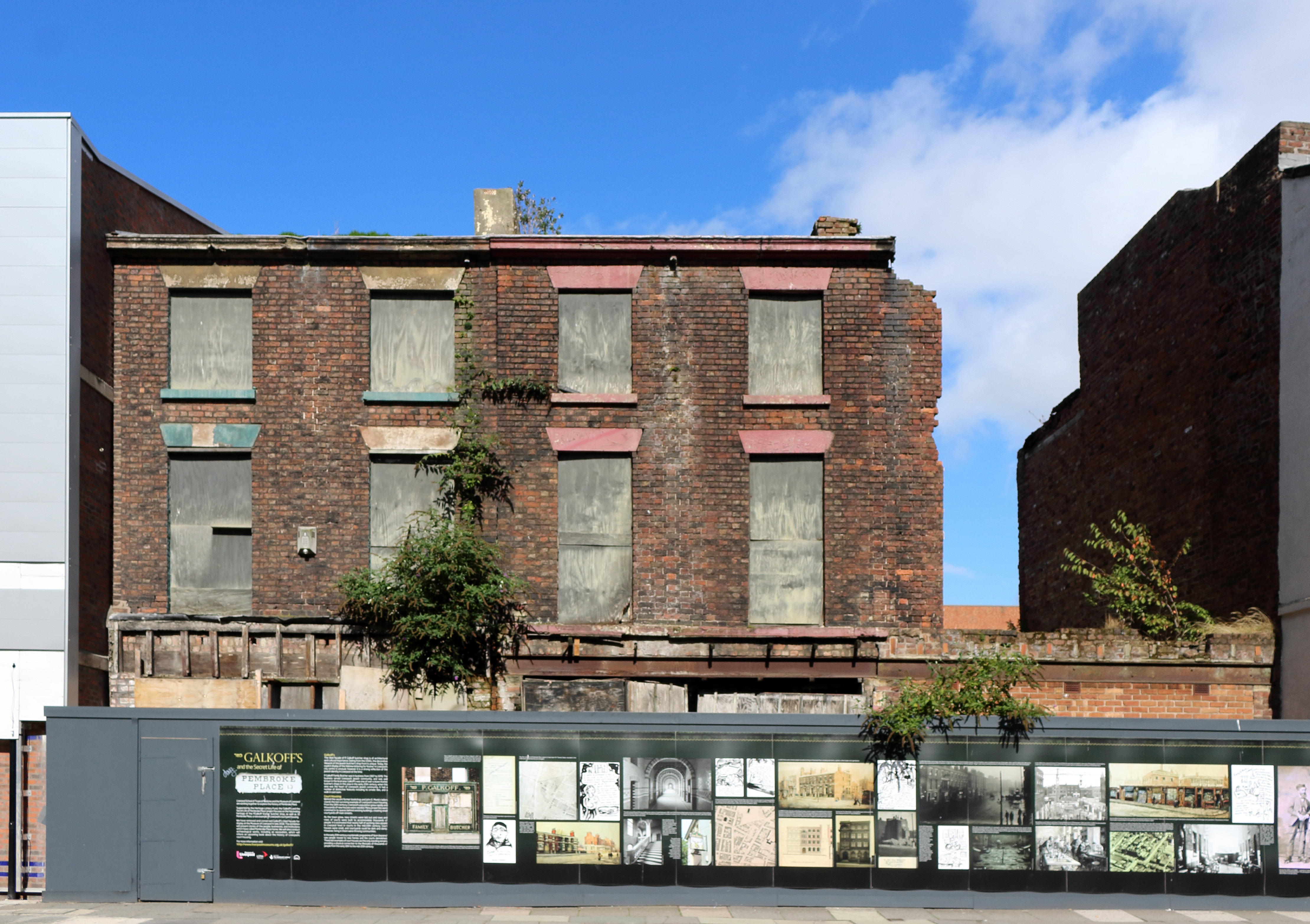 The front elevation in 21018, the Museum of Liverpool project having taken the tiling away for restoration. The houses to the right are examples of court housing, which were slum homes to Liverpool's poor in the 19th century.